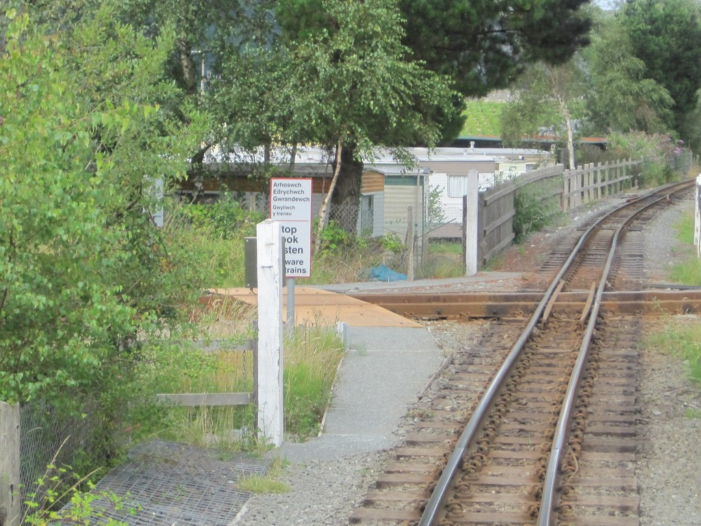 Welsh Highland Railway meets Network Rail. This is the only flat railway crossing in the UK where a narrow gauge line crosses a standard gauge railway line. Viewed from the back of a WHR train.